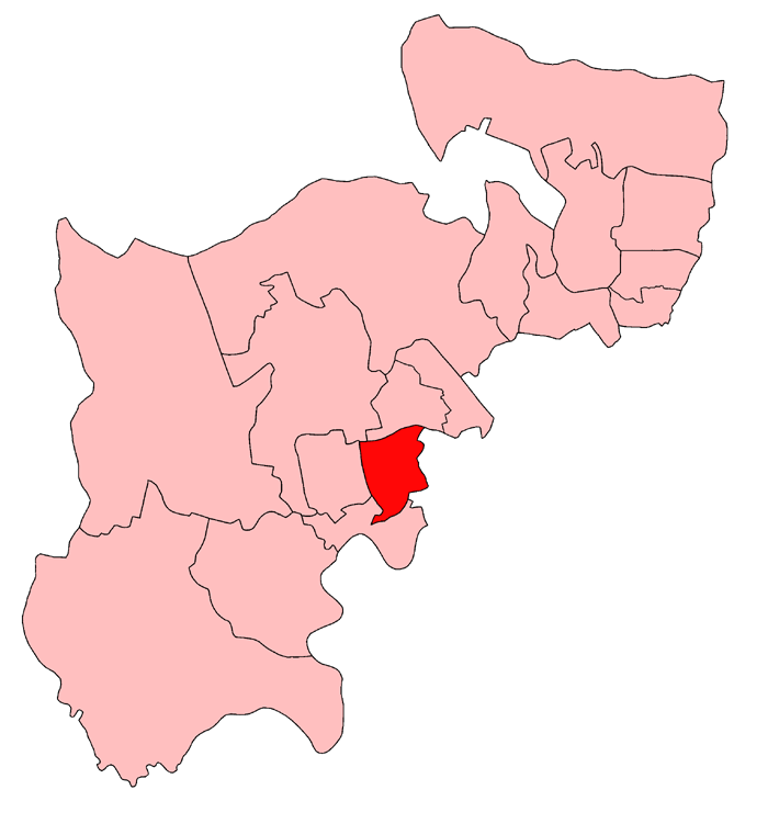 A map of Acton constituency within Middlesex, as it existed from 1918 to 1945.